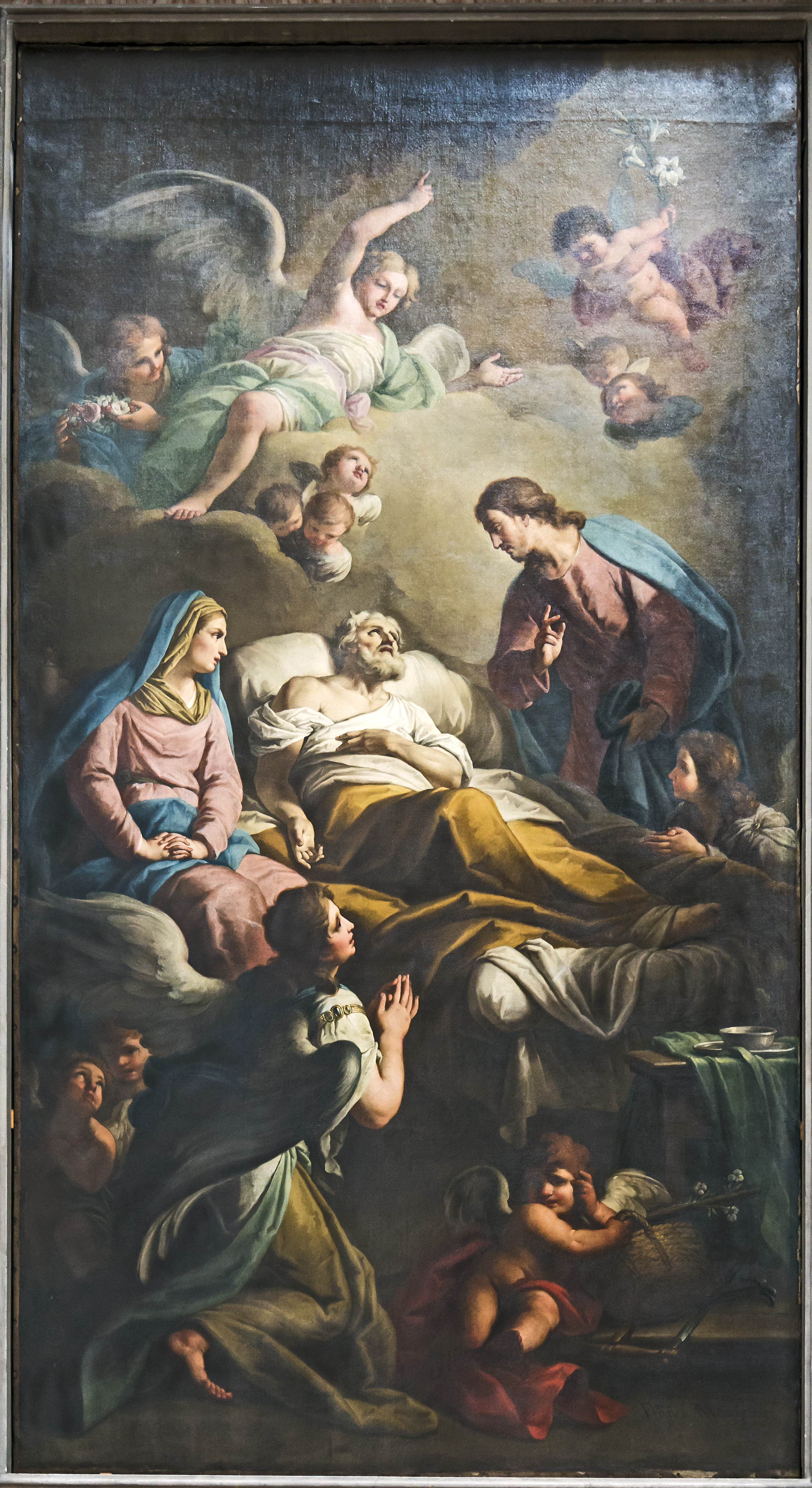 "Death of Saint Joseph" by Francesco Maggiotto (1805) San Geremia, Venice - right side of the transept